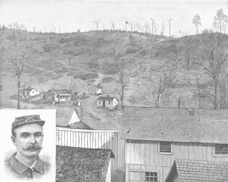 Drawing of a view from the Coal Creek stockade looking toward Militia Hill, the site of Fort Anderson, during the Coal Creek War (1891-1892) in western Anderson County, in the U.S. state of Tennessee. A drawing of Tennessee state militia officer J. Keller Anderson, who built the fort and commanded its garrison, is in the lower left. The fort was originally located at approximately 36.21540 -84.17433, just west of modern Lake City.